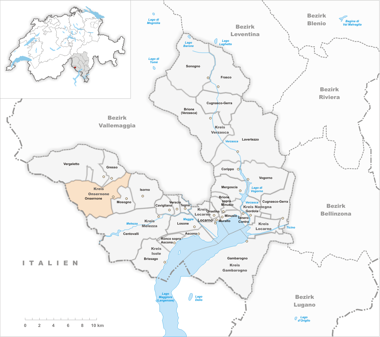 Municipality Onsernone Artist: Tschubby